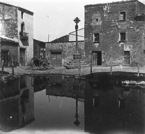 A square in Ciutadilla, 1914